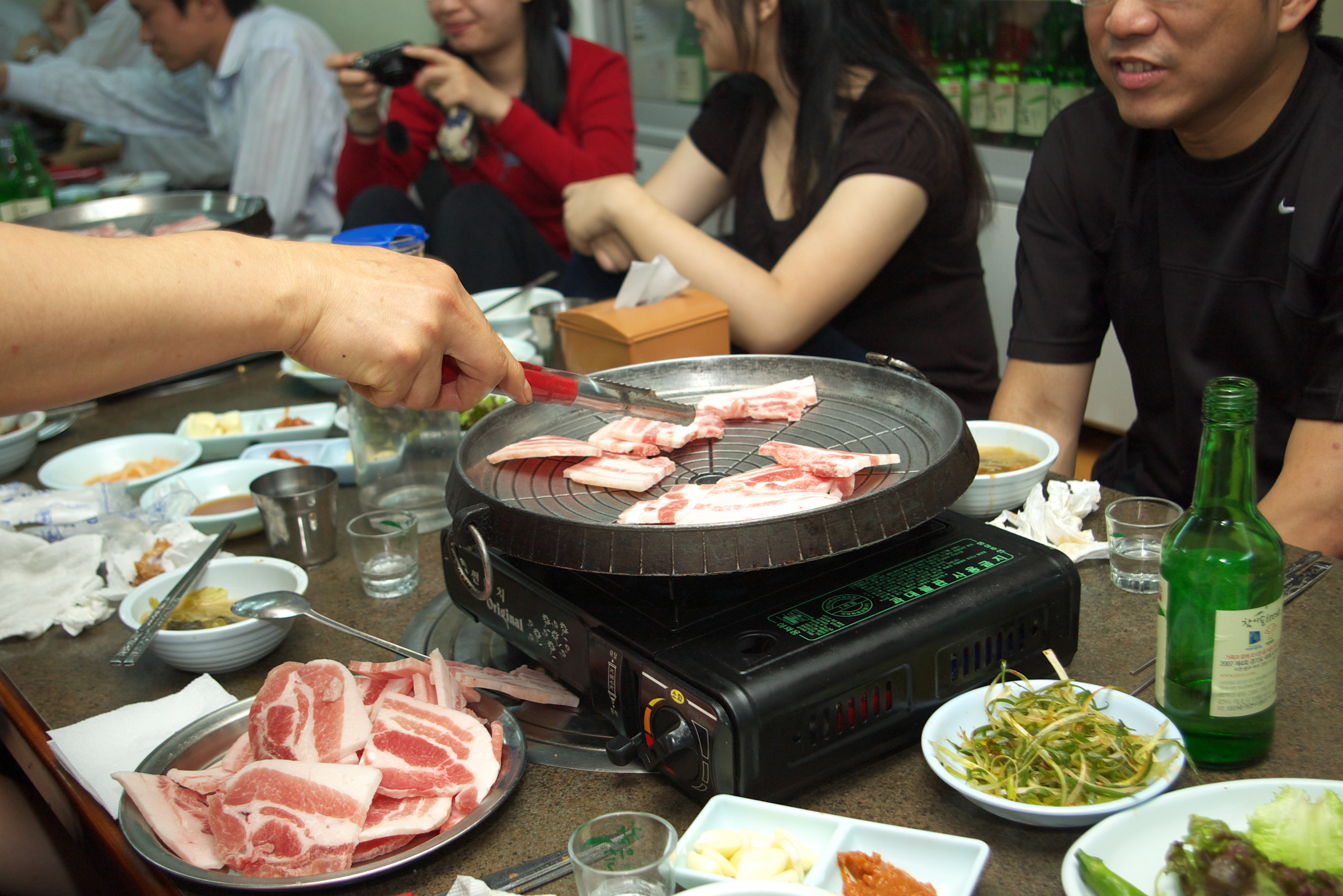 Samgyeopsal, pork belly in Korean cuisine.